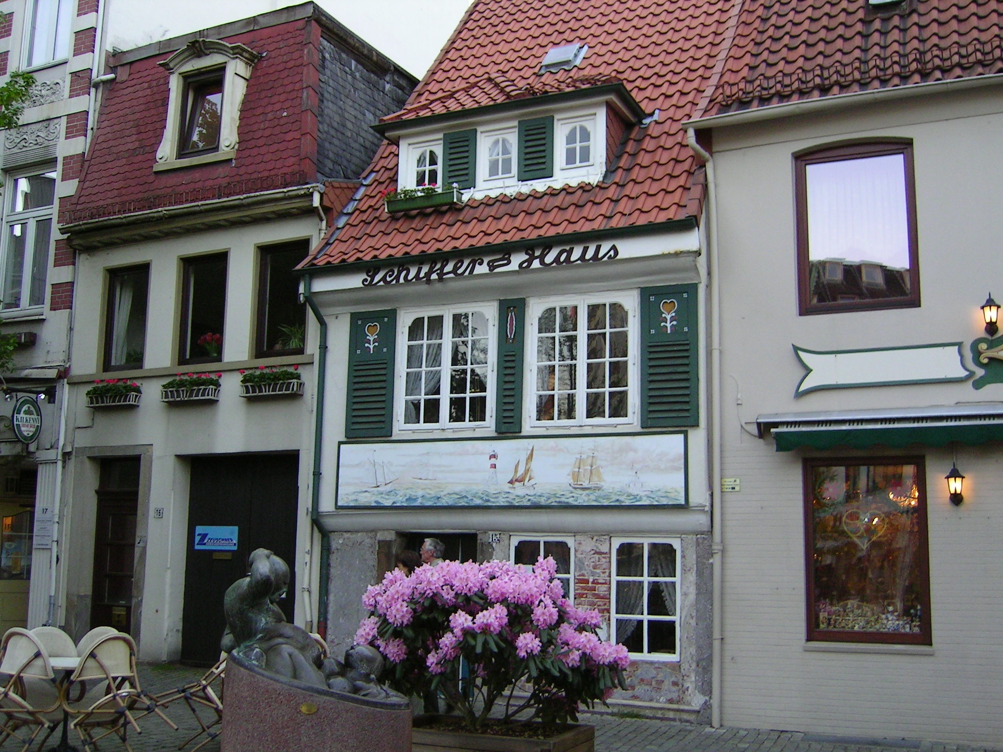 Houses from the 15th and 16th centuries along the narrow alleys in Bremen’s oldest surviving quarter